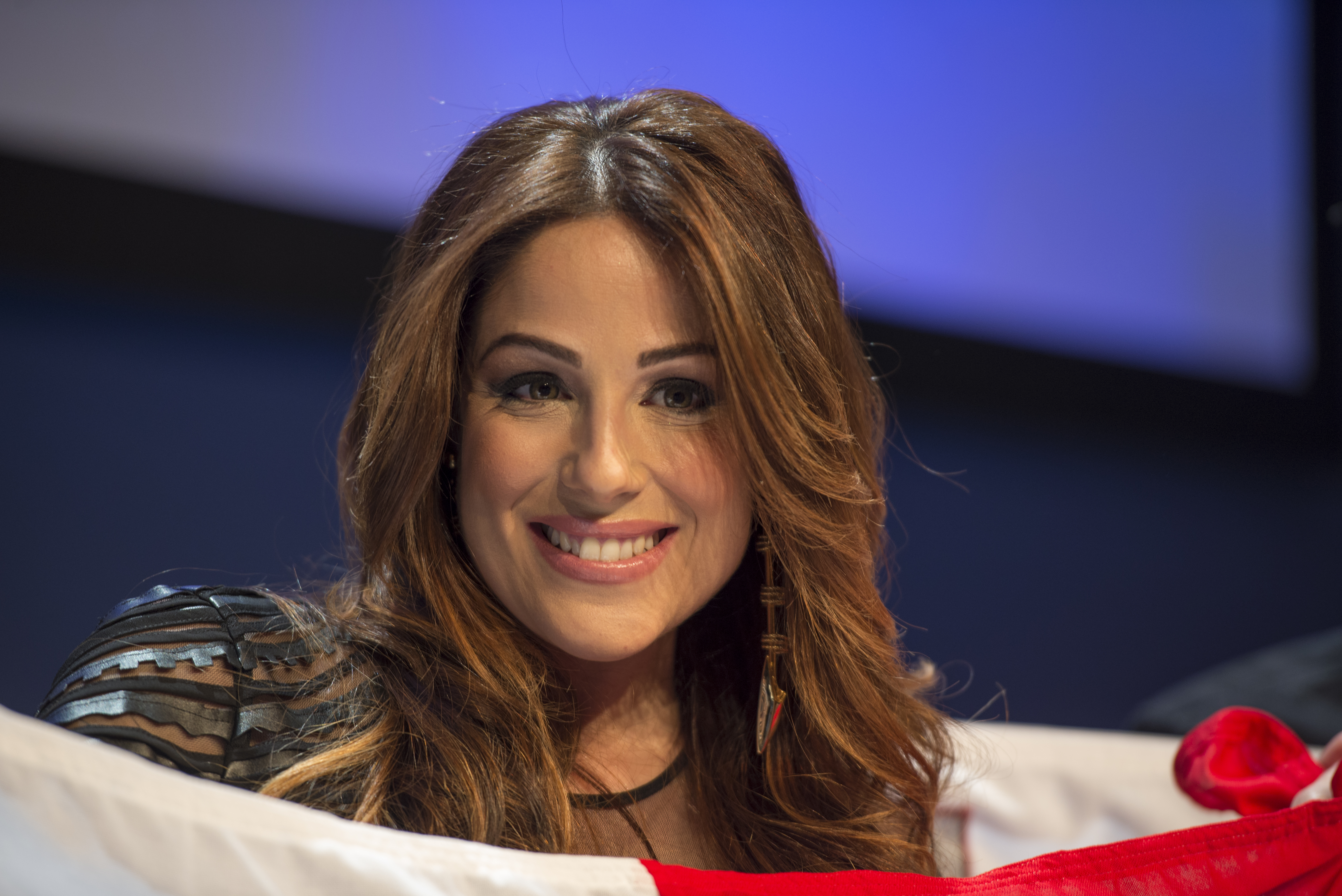 Ira Losco at a Meet & Greet during the Eurovision Song Contest 2016 in Stockholm. (Help translate this text)